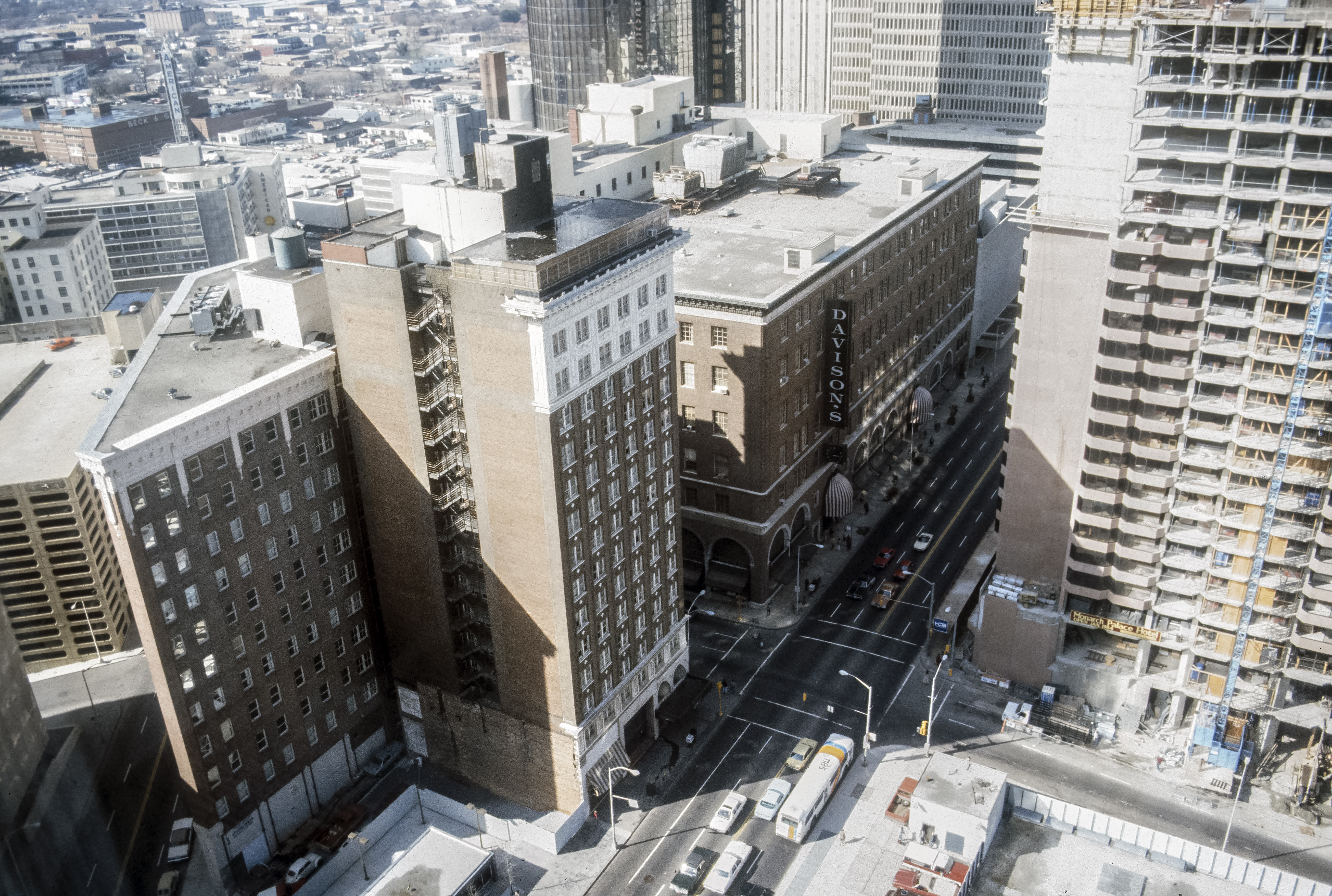 The Winecoff Hotel from the Georgia-Pacific Building, Atlanta, Georgia, USA. To the right is the Ritz-Carlton under construction. To the left of the Winecoff Hotel is the Wynne-Claughton Building. In the background is Davison's (200 Peachtree). Scanned Ektachrome slide.